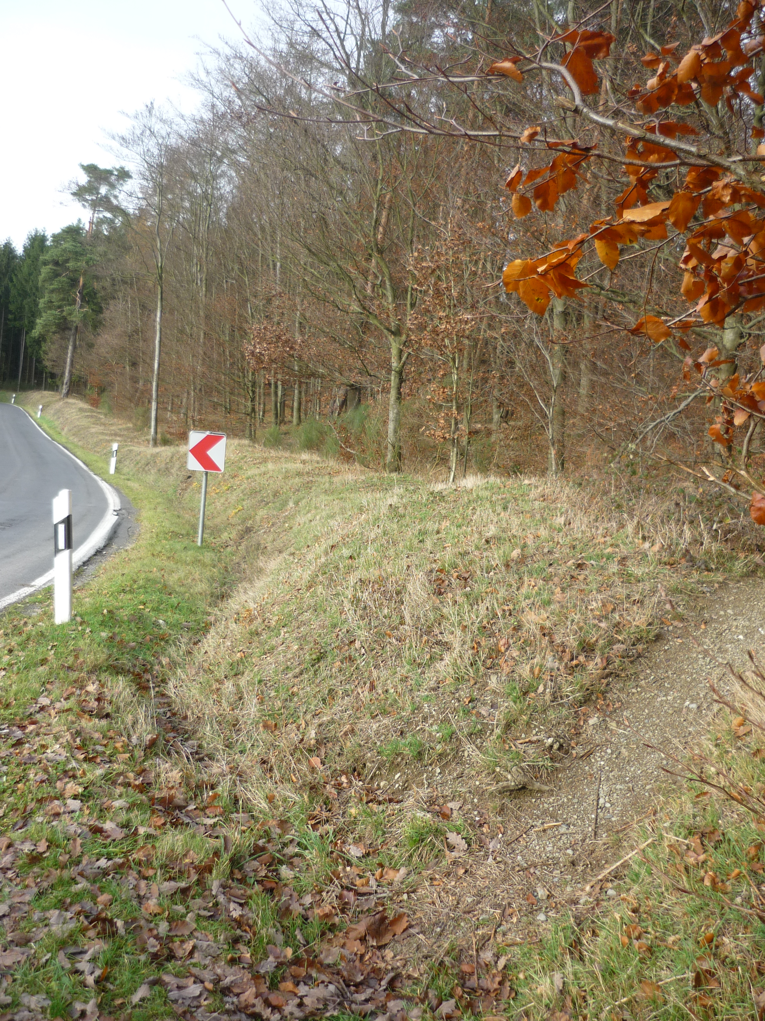 historic Walls near burbach Westerwald